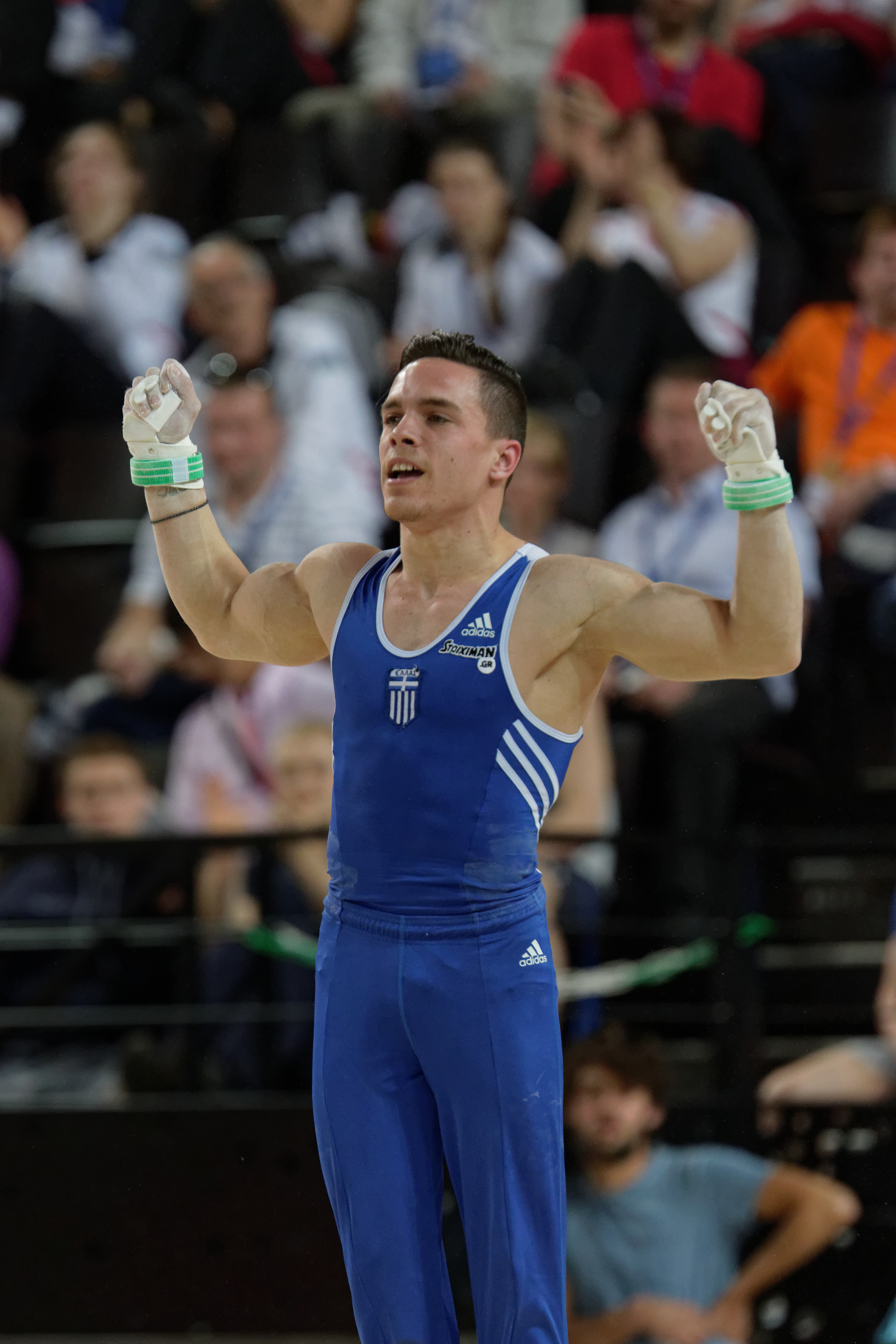 2015 European Artistic Gymnastics Championships. Rings.